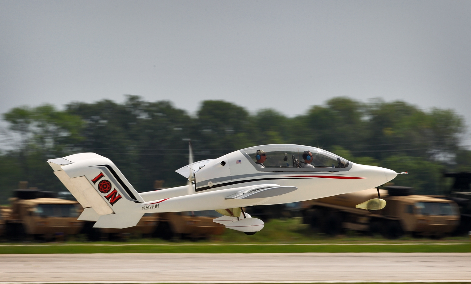 Image taken and edited by David A. Wilks, Owner of